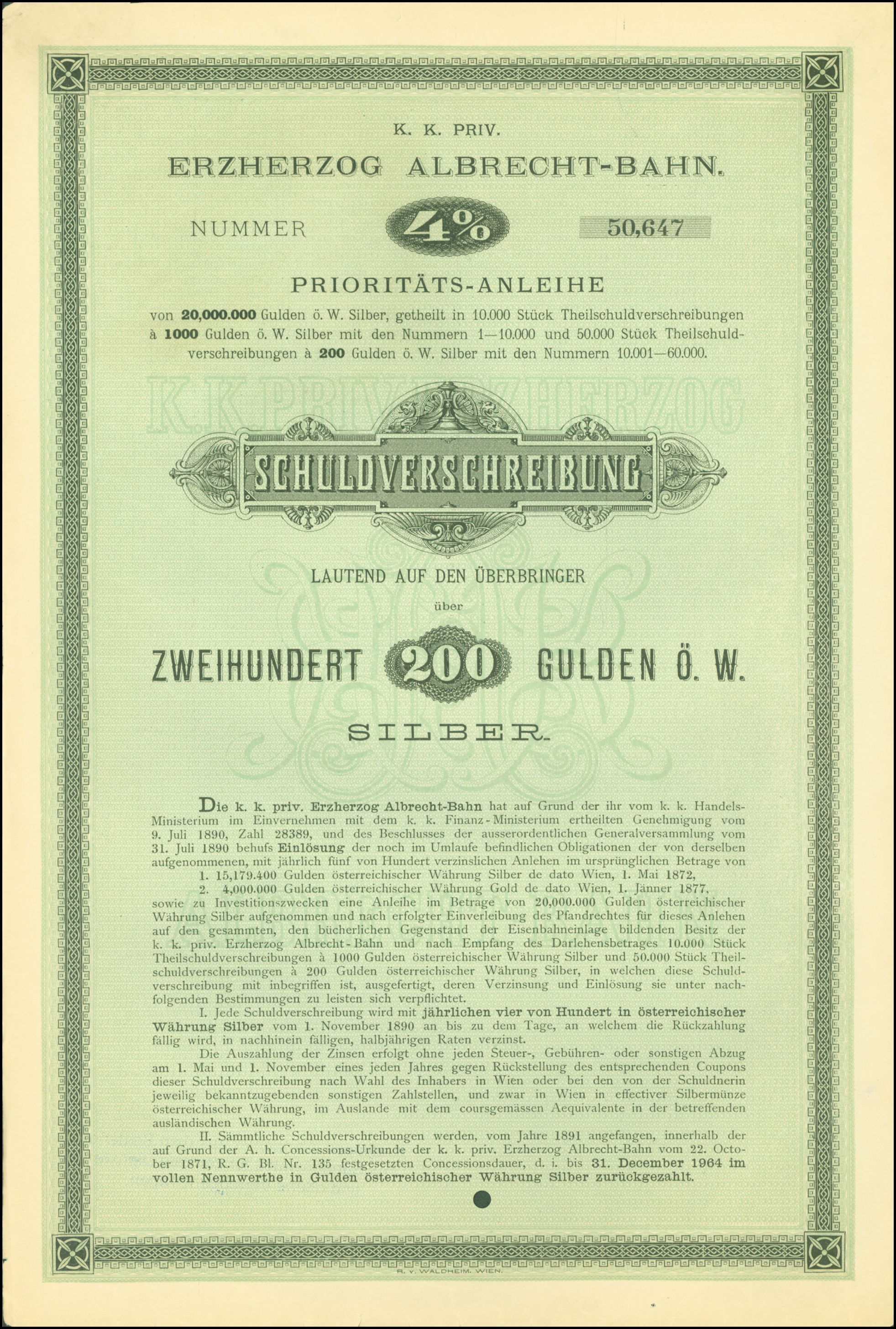 Bond of the k. k. priv. Erzherzog Albrecht-Bahn, issued 1. November 1890